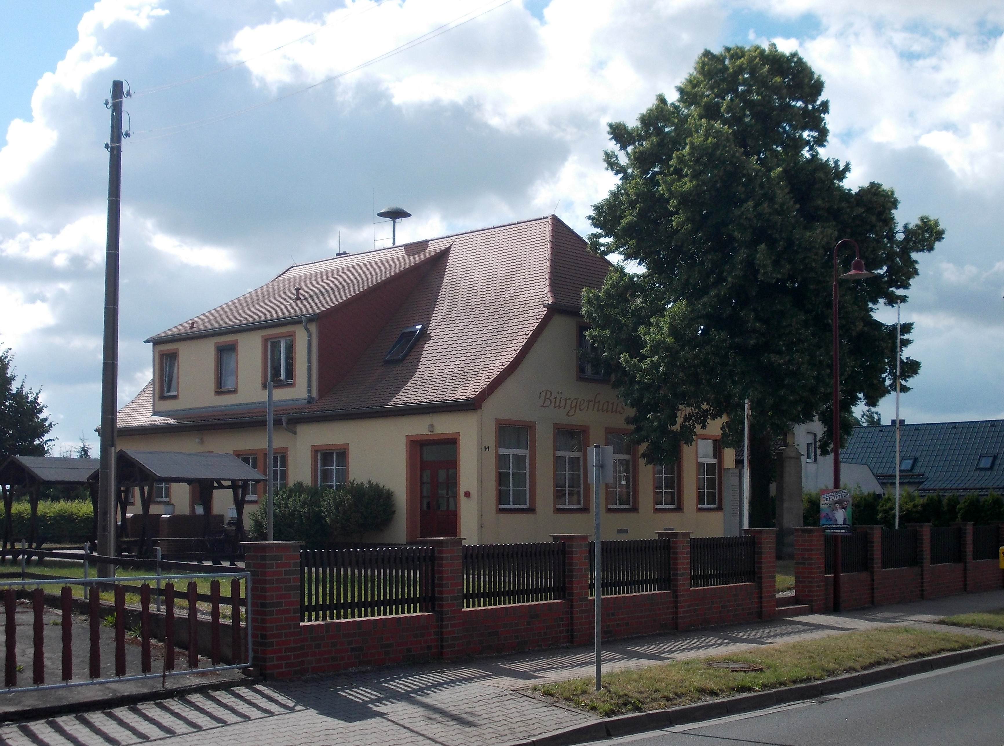 Village community house in Wellaune (Bad Düben, Nordsachsen district, Saxony)